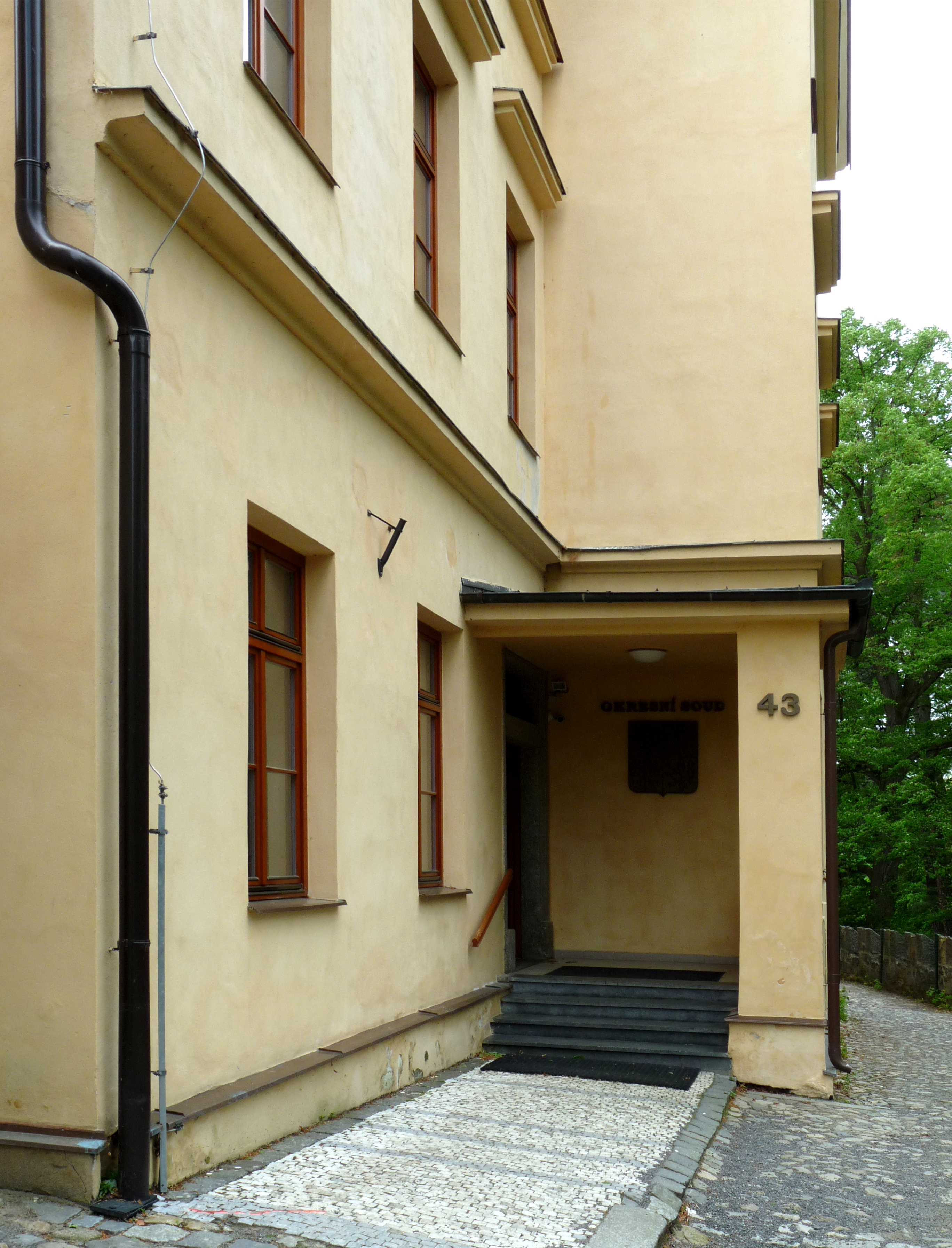 District Court in the town Tábor, South Bohemian Region, Czech Republic.